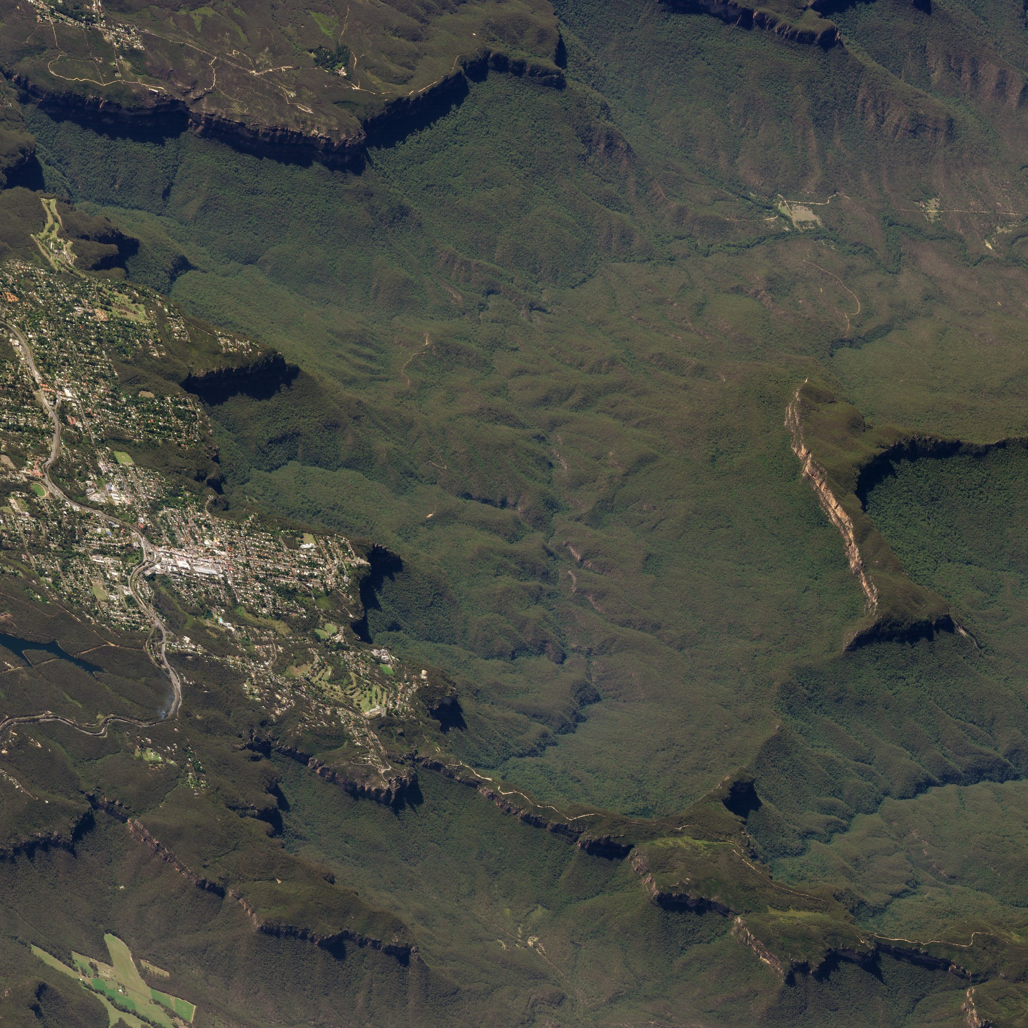 SkySat satellite image of the Three Sisters rock formation in the Blue Mountains near Katoomba, Australia